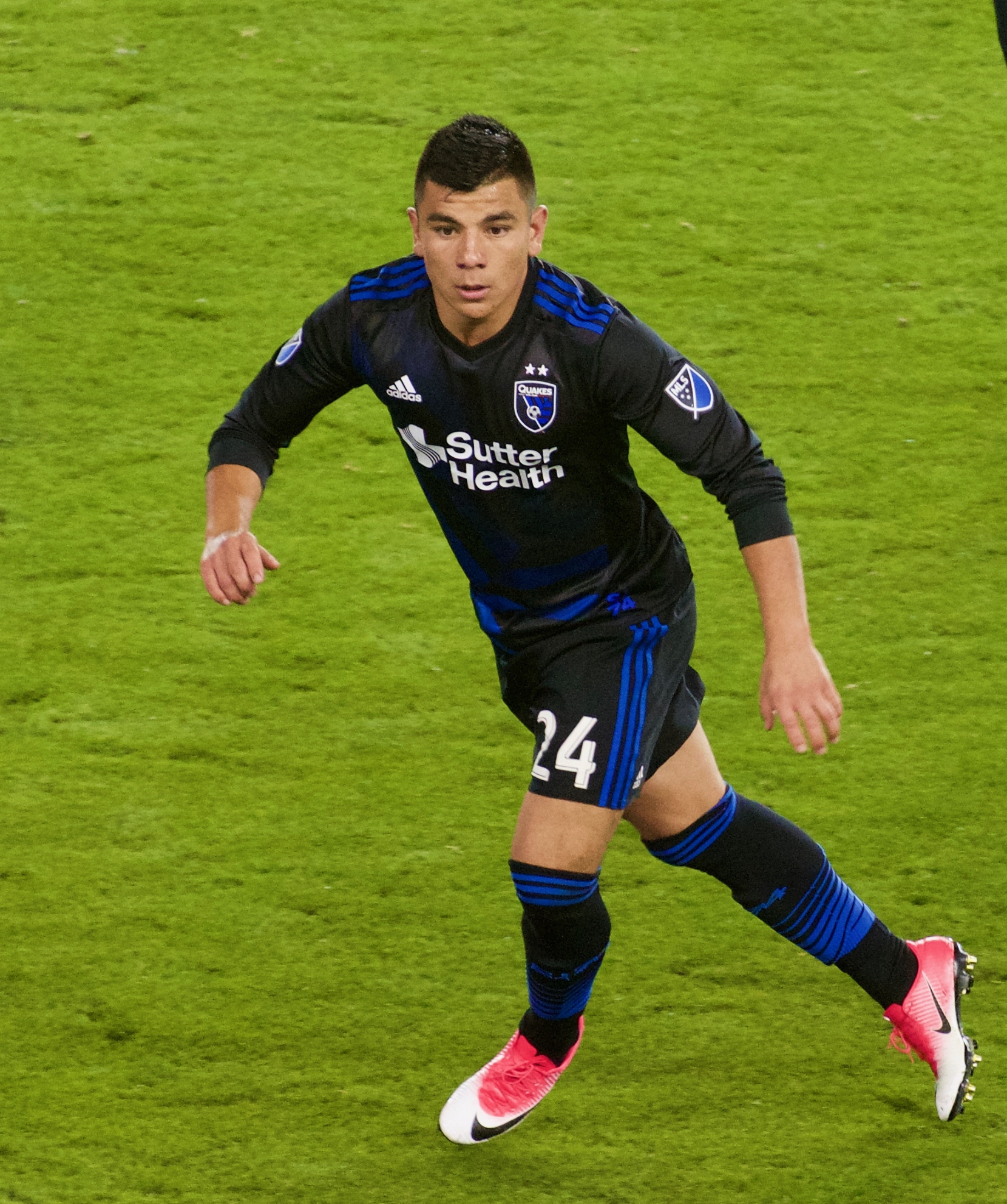 Nick Lima playing for San Jose Earthquakes at Avaya Stadium on 8 April 2017.